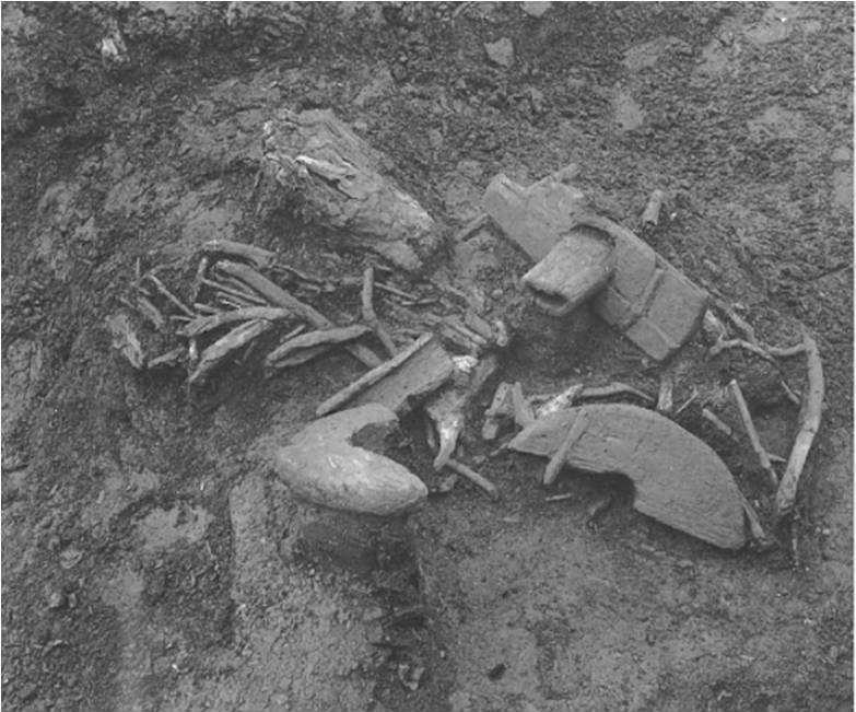 Parts of wooden wheel boards on branches of birch and hazelnut found in findspt C in Rappendam bog in Denmark in 1941. Dated to ca. 160 BC to 12 AD.